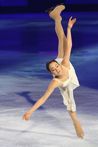 Mao Asada performs a spiral during her exhibition program at the 2010 Trophée Eric Bompard.